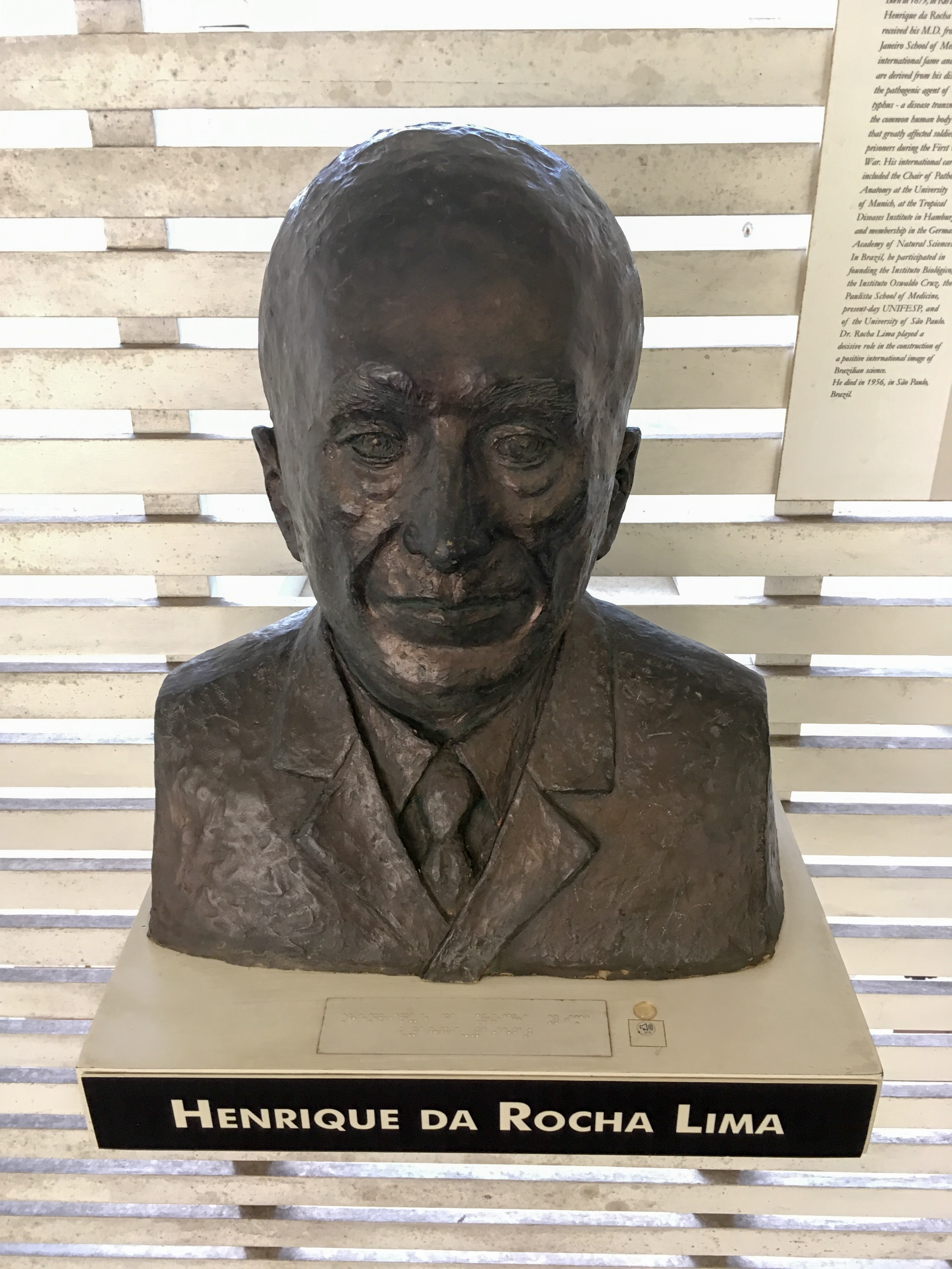 Instituto Butantan, São Paulo, Brazil.